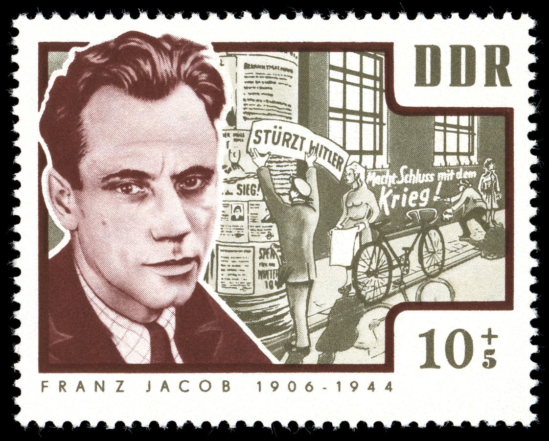 Ausgabepreis: 10+5 Pfennig First Day of Issue / Erstausgabetag: 24. März 1964 Auflage: 3.000.000 Entwurf: Sauer Druckverfahren: Offsetdruck Michel-Katalog-Nr: Ländercode-MiNr: 1015 Licensing This file is most likely NOT in the public domain. It has been marked for review, and will be deleted in due course if the review does not find it to be in the public domain. This file was previously considered to be in the public domain as a German stamp; it is possible that it is in the public domain for other reasons, in which case a new rationale will be applied as part of the review process. See below for the previous rationale. Previous public domain rationale, no longer applicable This stamp is in the public domain in Germany because it was released by the postal administration of the German Democratic Republic or the Soviet occupation zone (Deutschen Post der DDR) whose legal successor is the Federal Republic of Germany. Thus it is an official work according to German copyright law (§ 5 Abs. 1 UrhG).